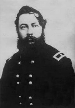 photo of Robert Alexander Cameron (1828-1894)